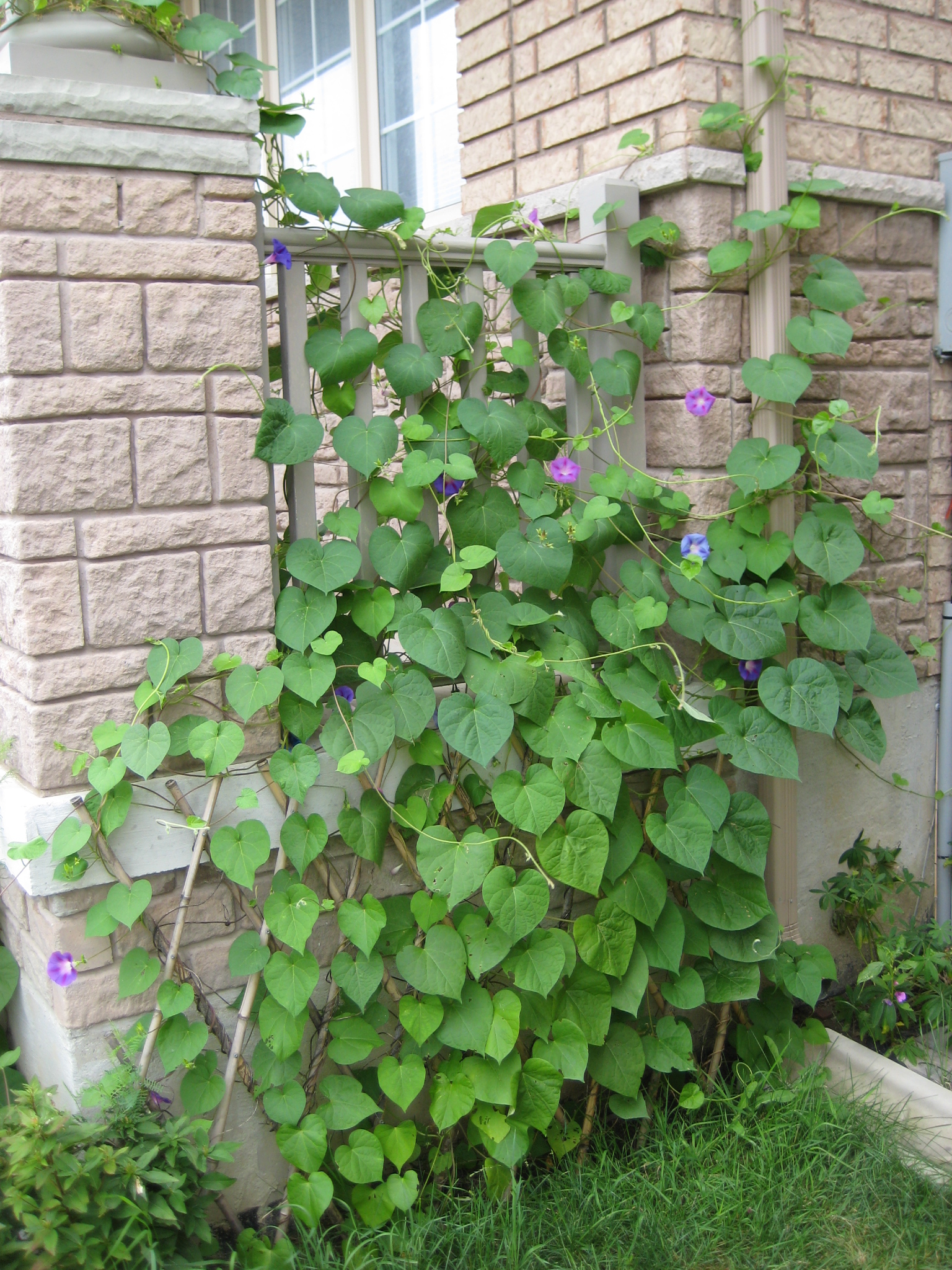 morning glory climbing